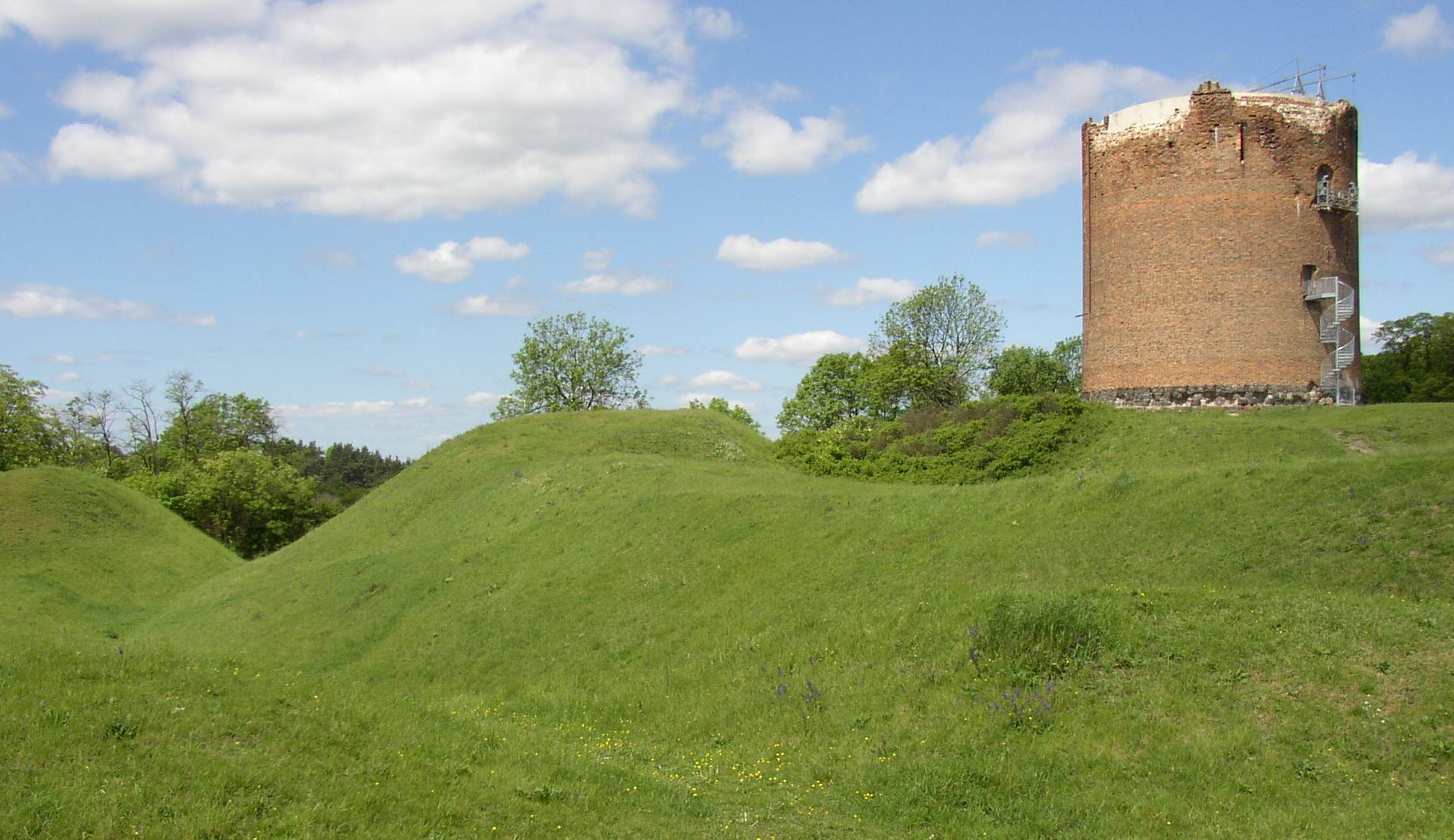 Tower ruin in Angermünde-Stolpe in Brandenburg, Germany